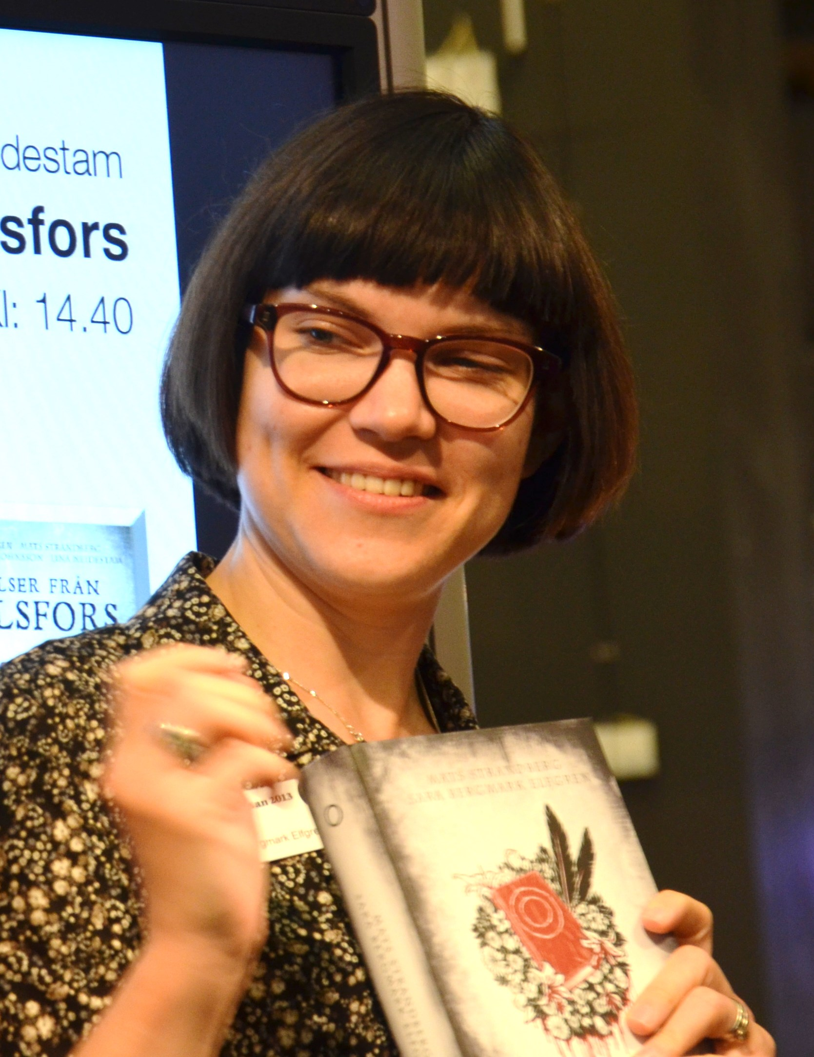 Sara Bergmark Elfgren på BOkmässan i Göteborg 2013